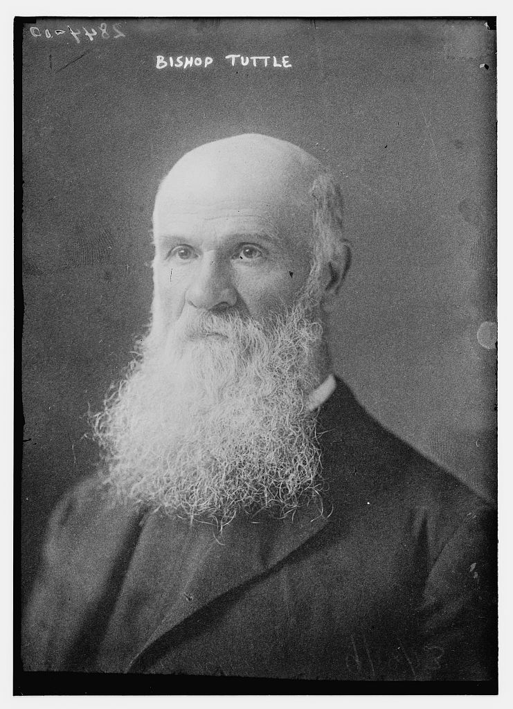 Bishop Daniel Sylvester Tuttle circa 1917